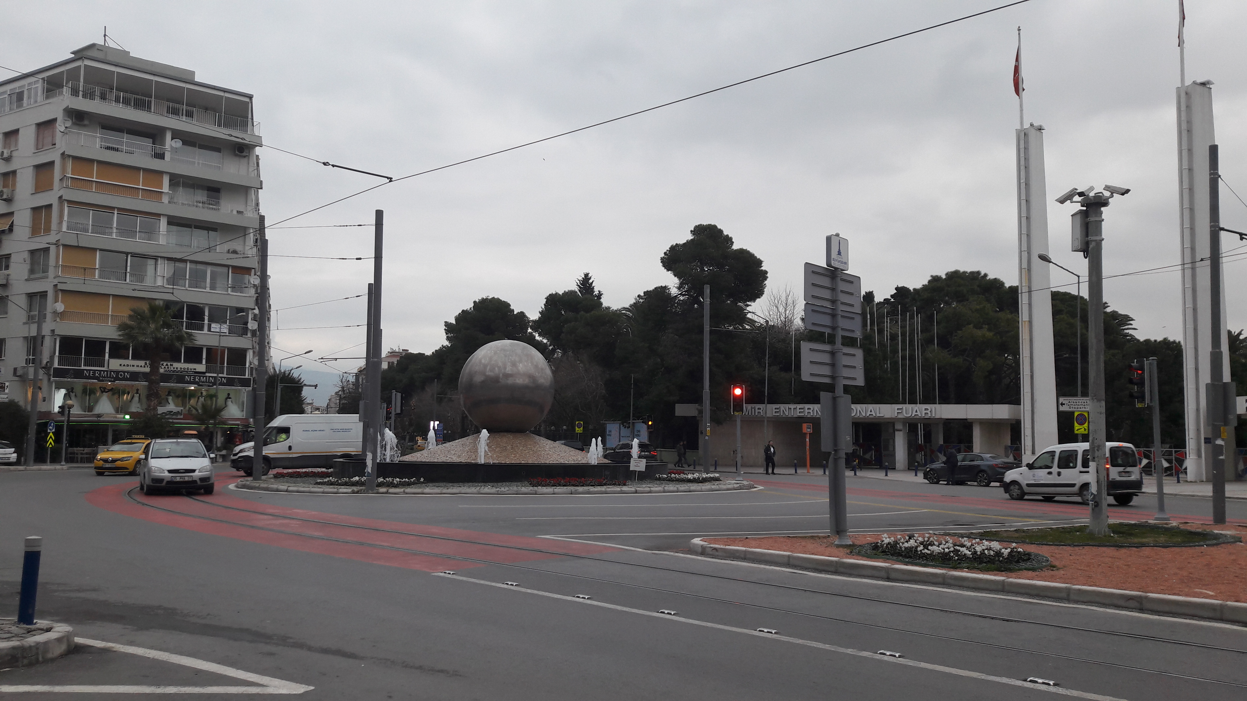 Lozan Square in Izmir.